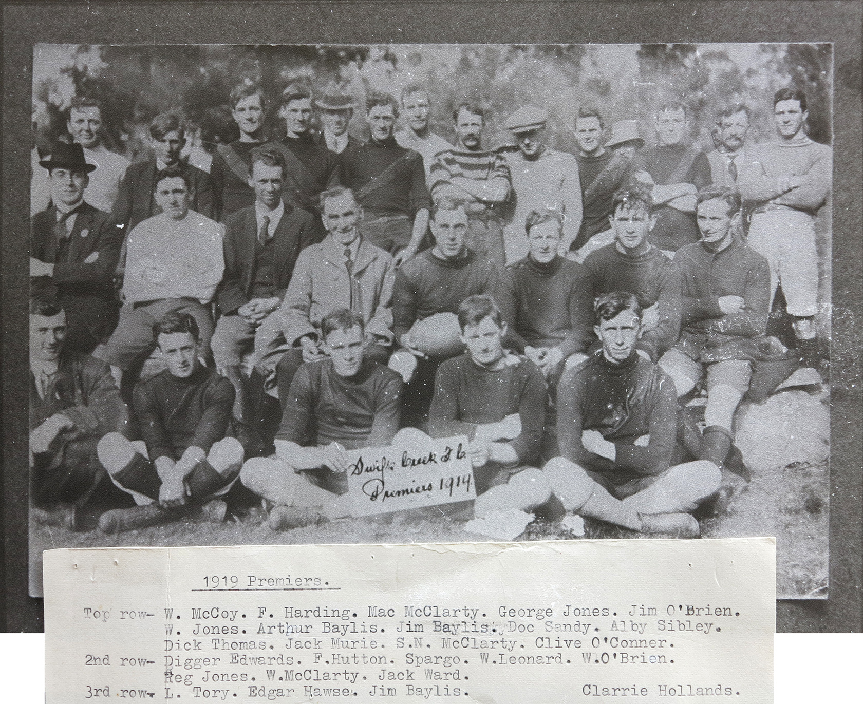 Swifts Creek 1919 Australian rules football premiership team in the Omeo & District Football Association (ODFA) in Swifts Creek, Victoria, Australia.Note the variety in what appear to be team jumpers being worn, common in amateur clubs at the time. The most typical design appears to be a jumper with a diagonal stripe. Based on the club colours this was presumably blue with a red stripe, although when these became official club colours is not really known. Also when the club changed to the later and still current design of blue with a red vee is also uncertain.